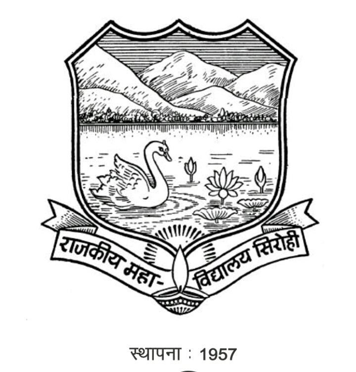 Govt college sirohi logo